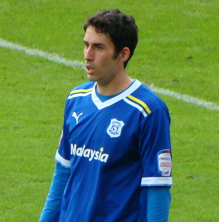 Peter Whittingham. 15/10/11 Cardiff v Ipswich, Championship, Cardiff City Stadium, Cardiff, Wales